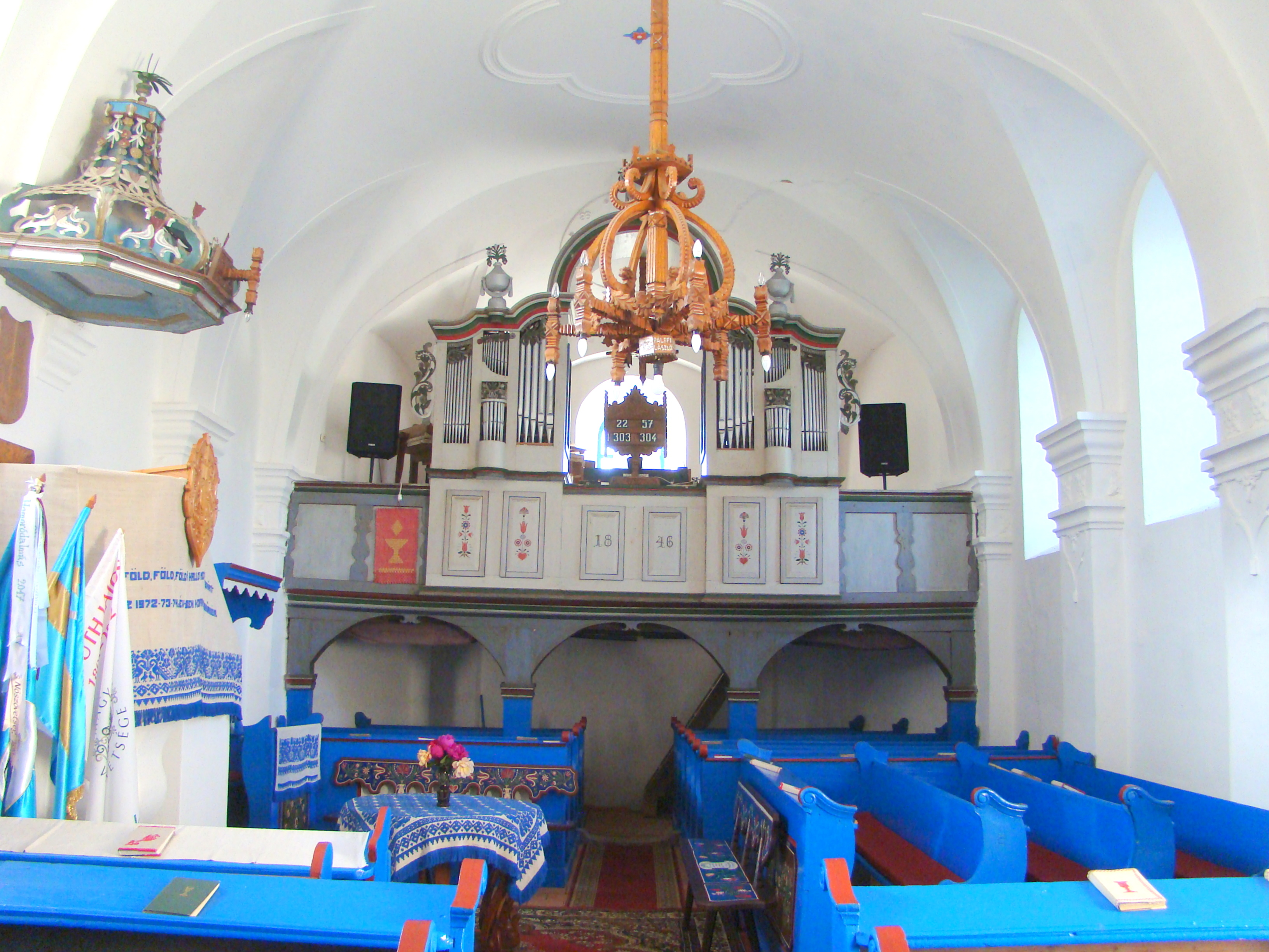 Unitarian church in Satu Nou, Harghita County, Romania